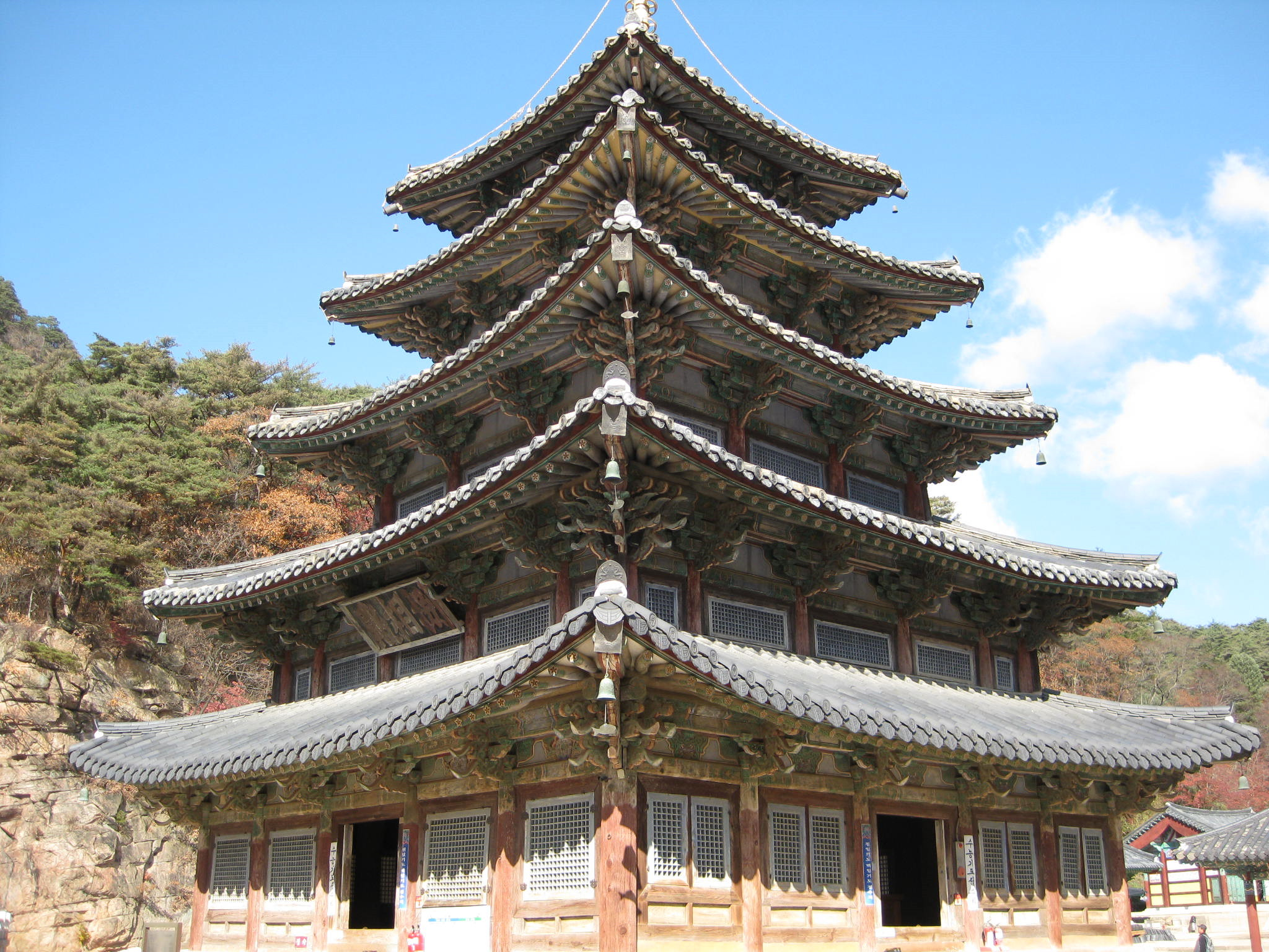 Palsang Hall, Pagoda of Beopju Temple (Beopjusa), South Korea.